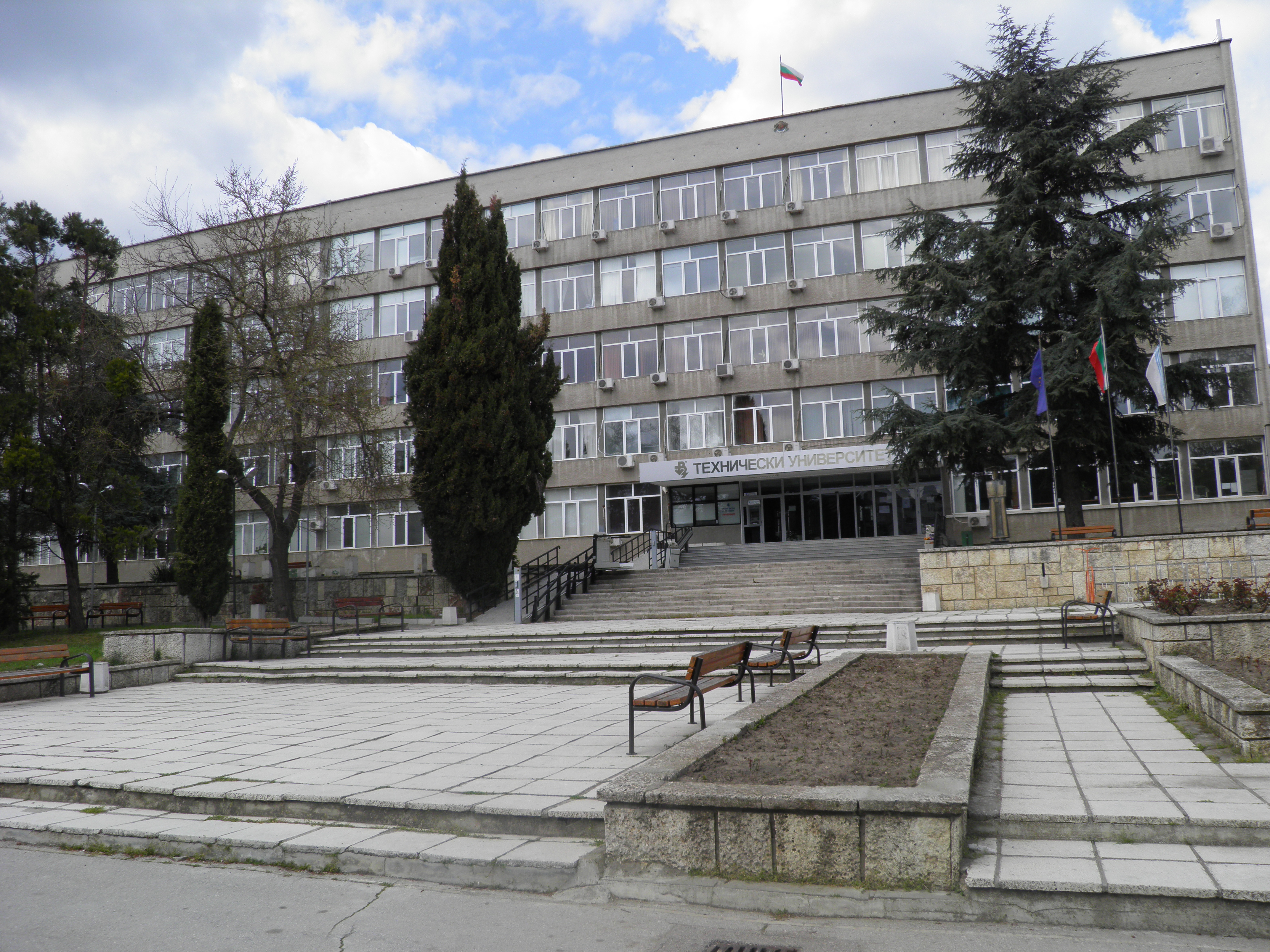 Technical University of Varna Rectorate